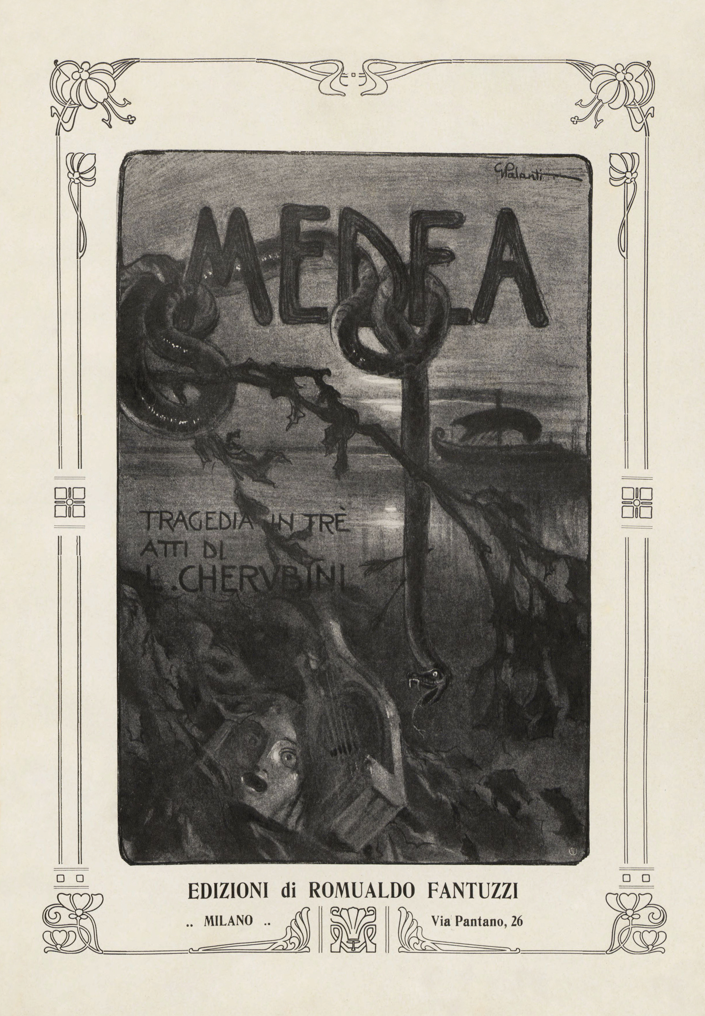 Title page to a vocal score of the 1909 hybrid version of Médée, a French language opéra-comique by Luigi Cherubini.